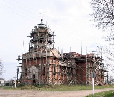 Orthodox church in Zembin